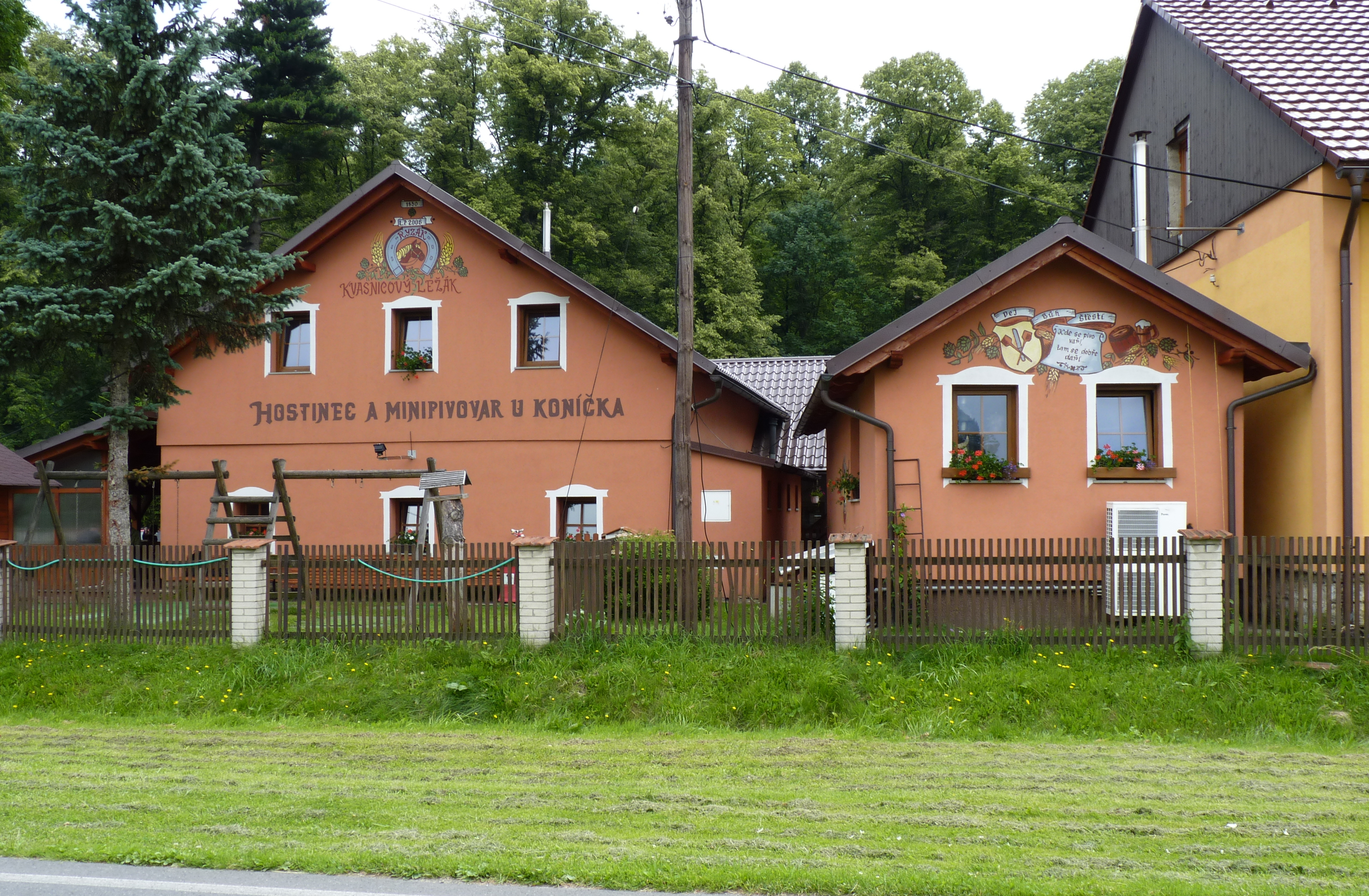 Vojkovice. Frýdek-Místek District, Moravian-Silesian Region, Czech Republic